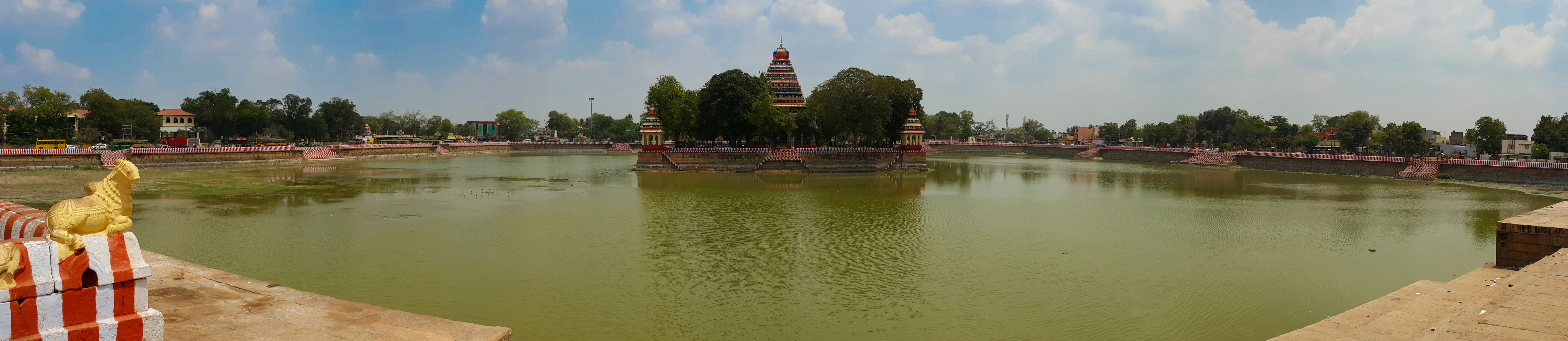 A panoramic view of Vandiyur Mariamman Teppakulam in Madurai, India